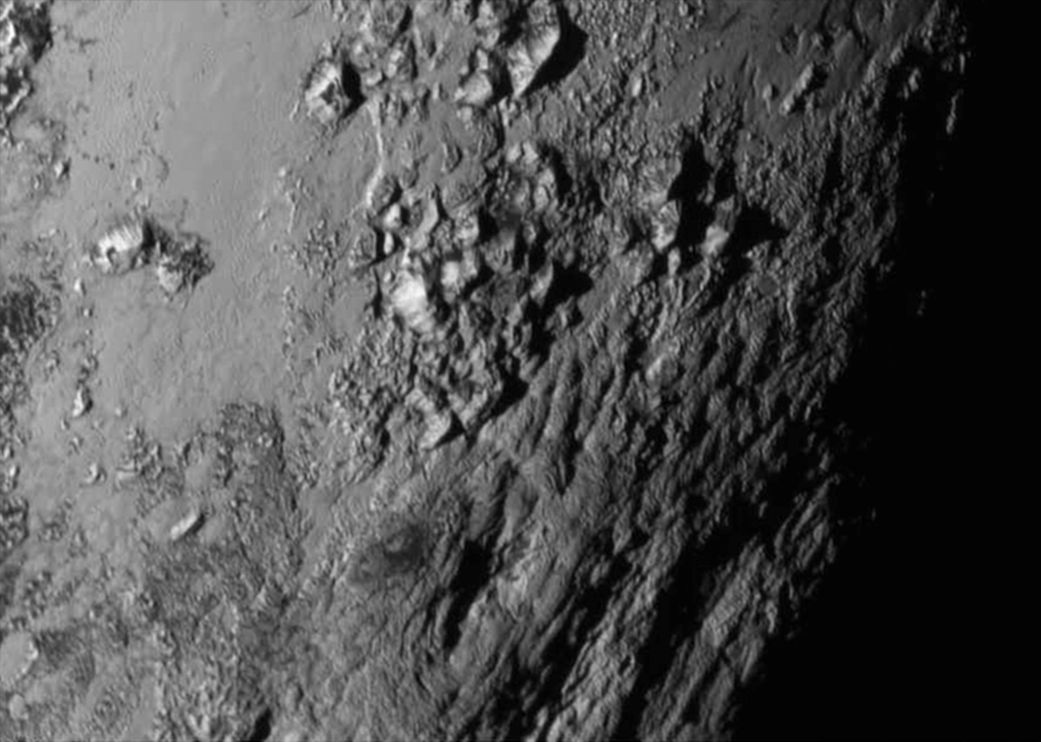 This close-up image of a region near Pluto’s equator captured by NASA’s New Horizons spacecraft on July 14, 2015 reveals a range of youthful mountains rising as high as 11,000 feet (3.4 kilometers) above the surface of the dwarf planet. This iconic image of the mountains, informally named Norgay Montes (Norgay Mountains) was captured about 1 ½ hours before New Horizons’ closest approach to Pluto, when the craft was 47,800 miles (77,000 kilometers) from the surface of the icy body. The image easily resolves structures smaller than a mile across. The highest resolution images of Pluto are still to come, with an intense data downlink phase commencing on Sept. 5, 2015.